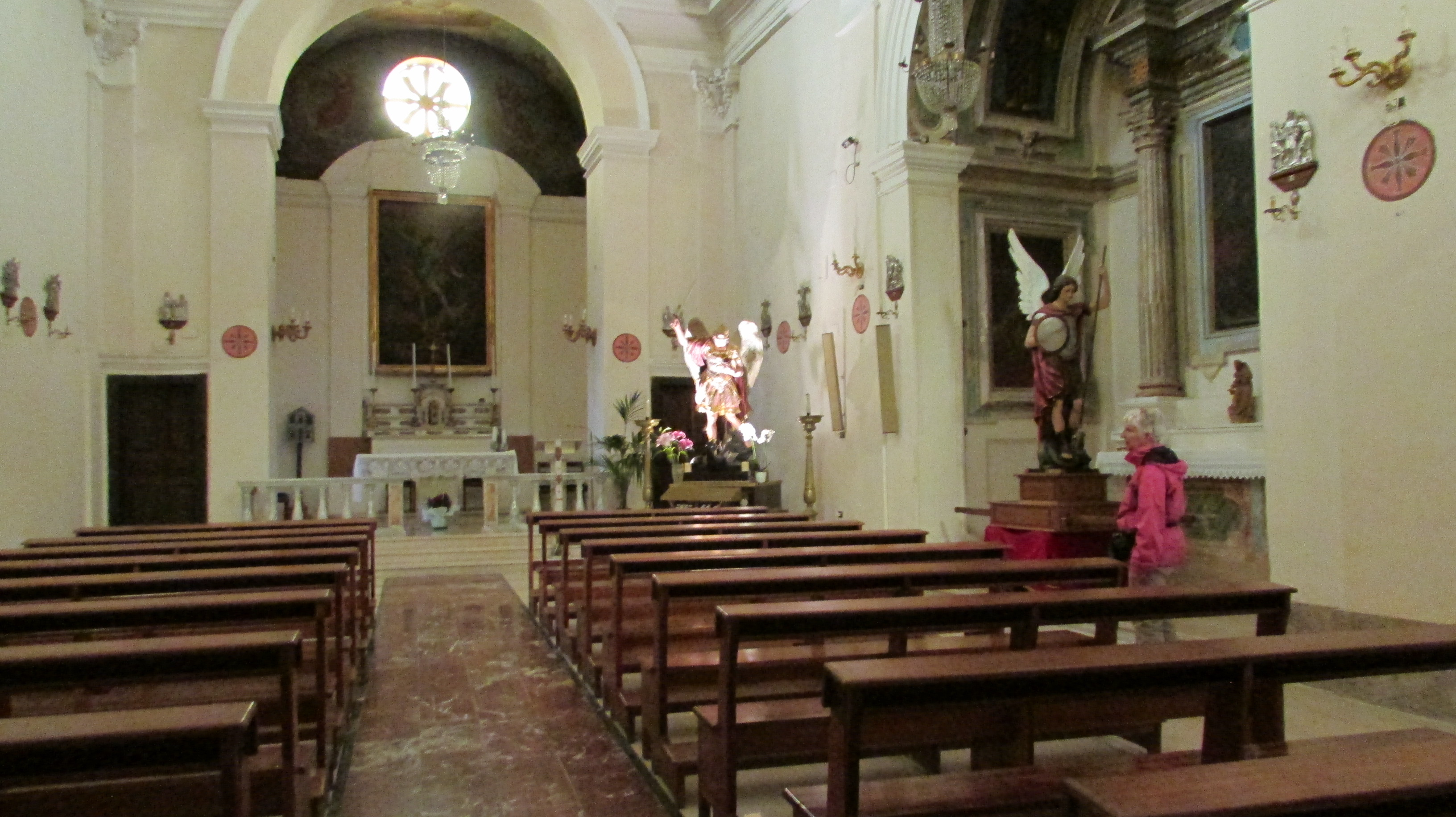 Nave of St. Michael the Archangel Church (Greccio, Italy)